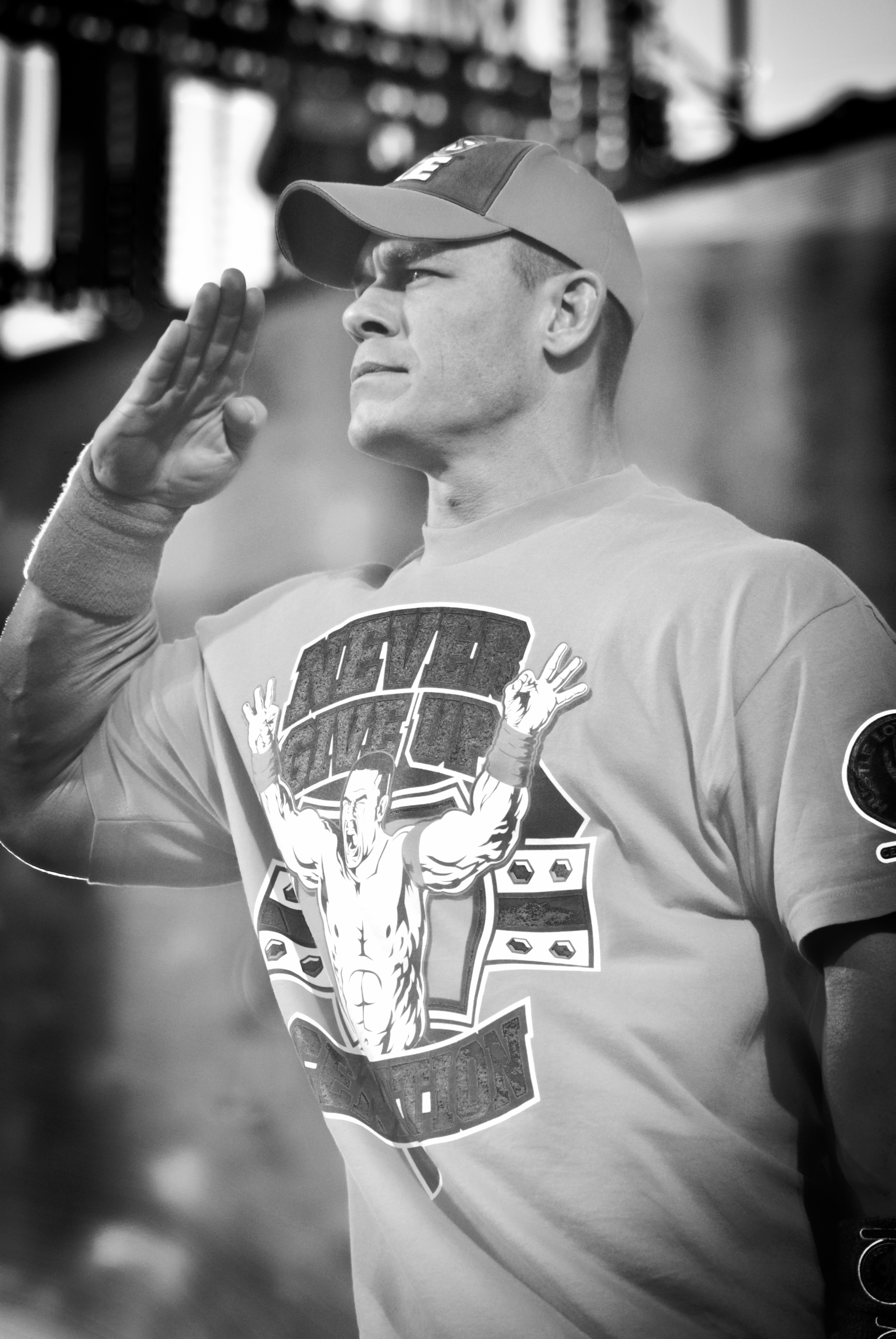 John Cena at WWE's Tribute to the Troops event on December 11, 2010 in Fort Hood, Texas.